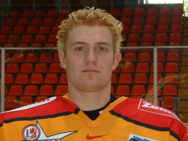 Ice-Hockey player Alexander Sulzer (GER), playing for DEG Metro Stars (GER)